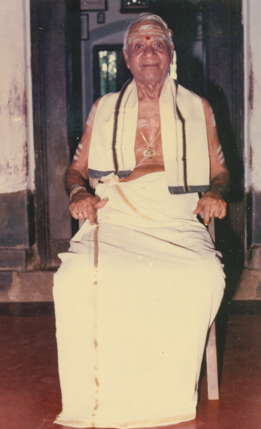 Guru Nātyāchārya Vidūshakaratnam Padma Shri Māni Mādhava Chākyār ( 1899 - 1990 ) - All time great Koodiyattam-Chakyar Koothu artist. Attribution: "Nātyāchārya Vidūshakaratnam Padma Shri Māni Mādhava Chākyār" or "Padma Shri Mani Madhava Chakkiyar".